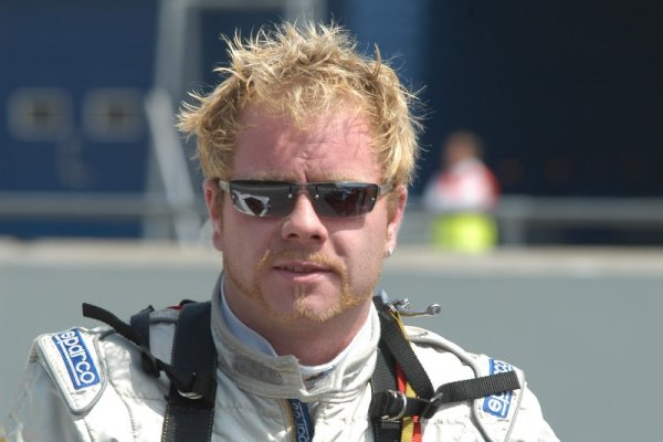 Gav head